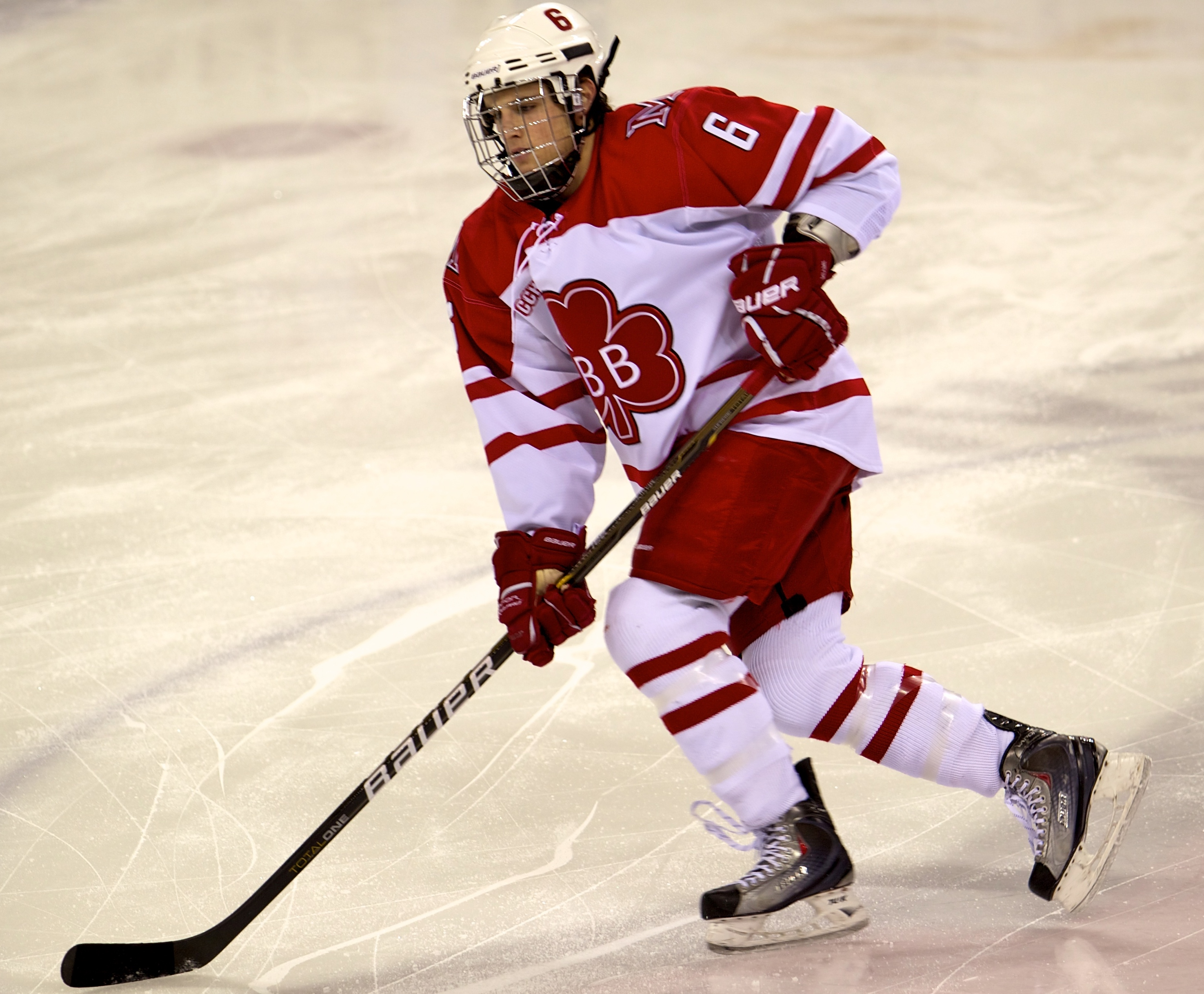 Chris Wideman, American ice hockey defenseman